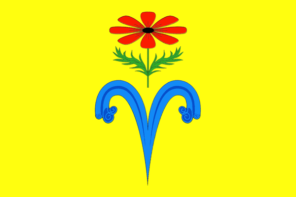 Flag of Otradnensky rayon, Krasnodar Territory, Russia